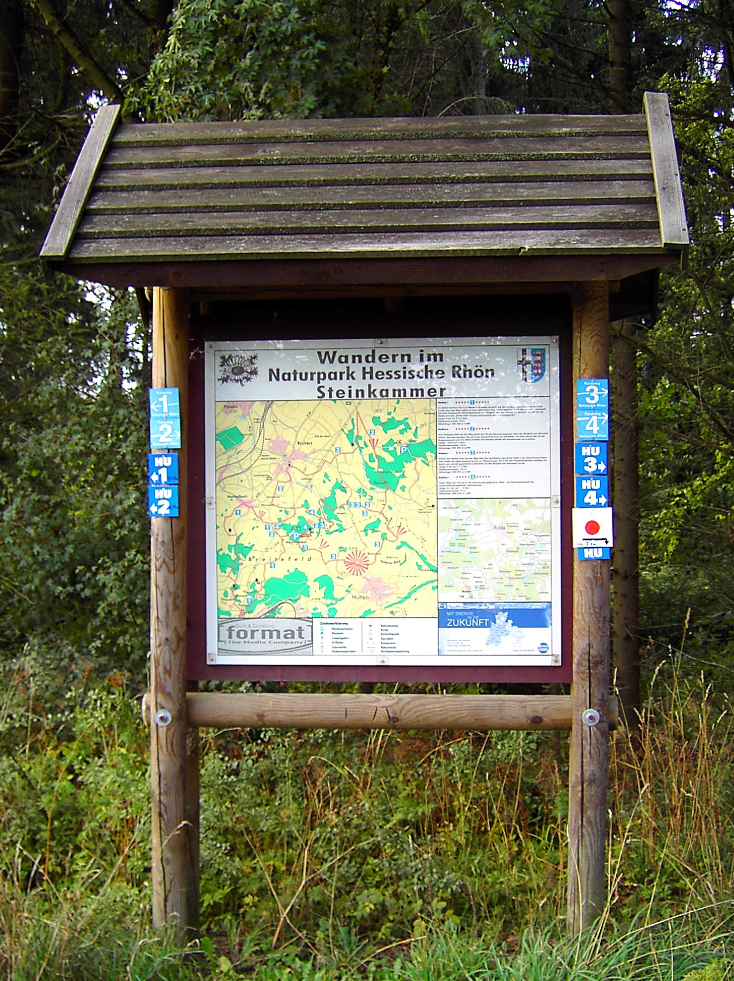 village of rückers - "steinkammer" - public footpathes in the nature park